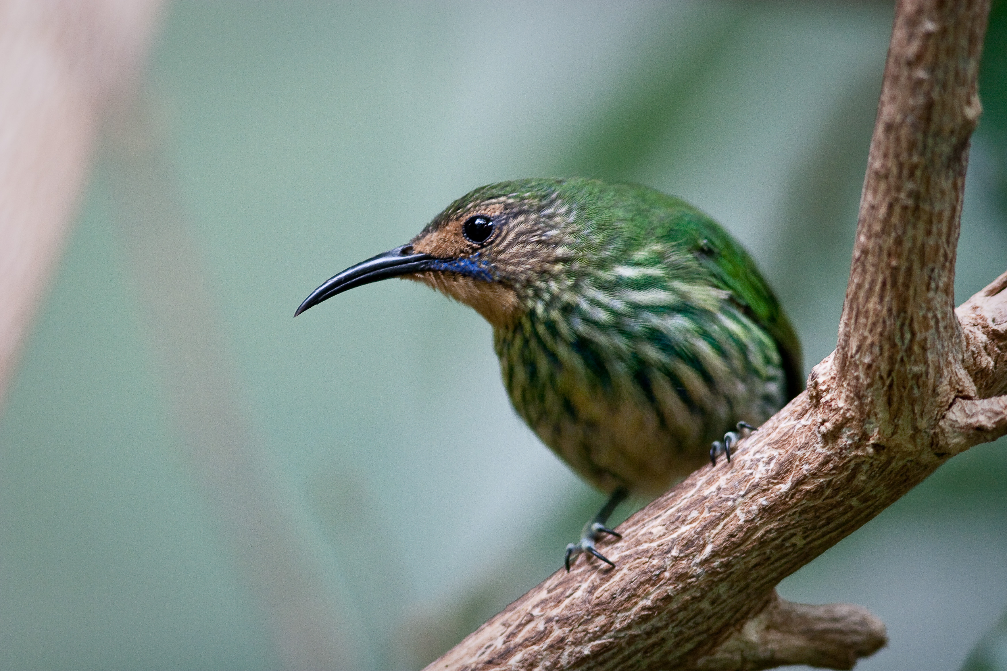 A female Purple Honeycreeper at Diergaarde Blijdorp, Rotterdam, Netherlands.